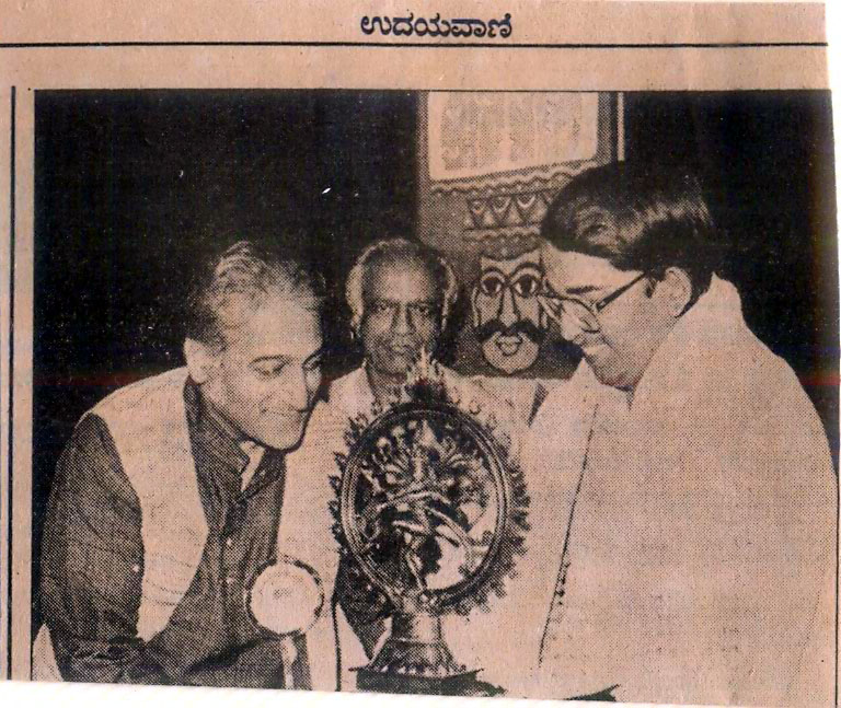 N D Shetty 5